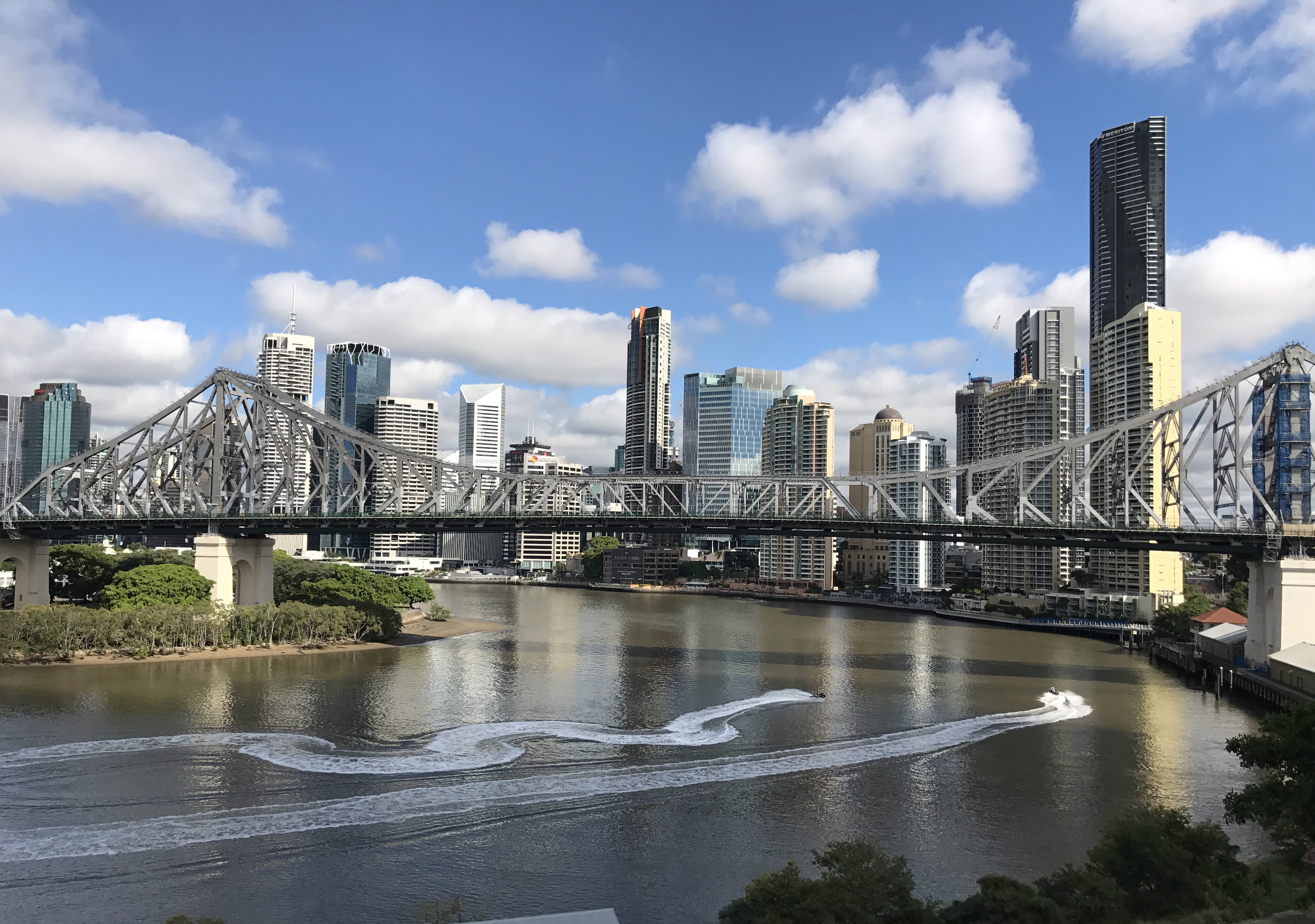 Brisbane CBD and Brisbane River views from Bowen Terrace